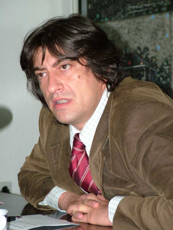 Image of Sasa Milenic